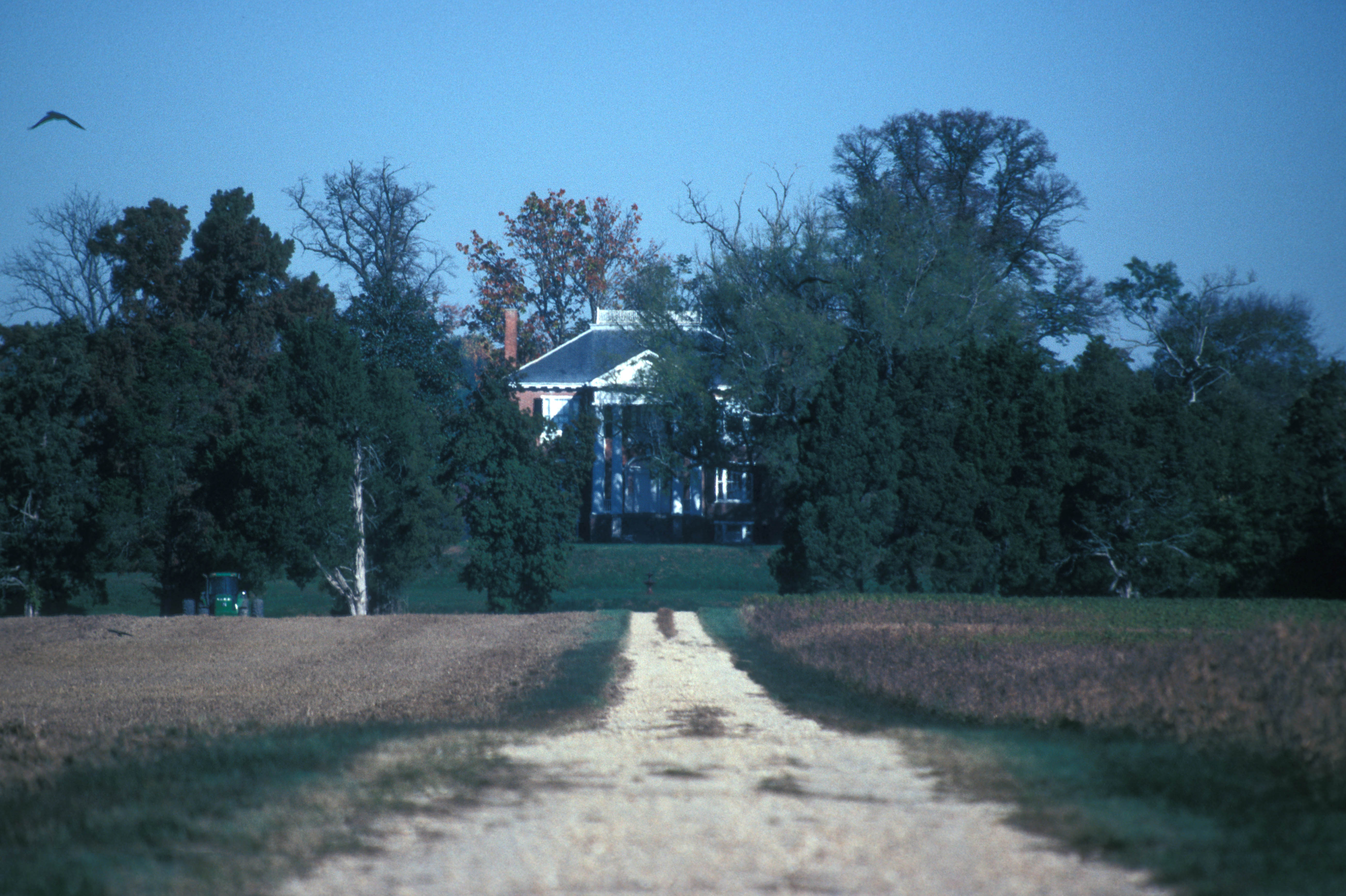 1829-1830 MANSION BUILT BY GEORGE TAYLOR; FEDERAL BRICK; TAYLOR WAS A WELL KNOWN AGRARIAN REFORMER